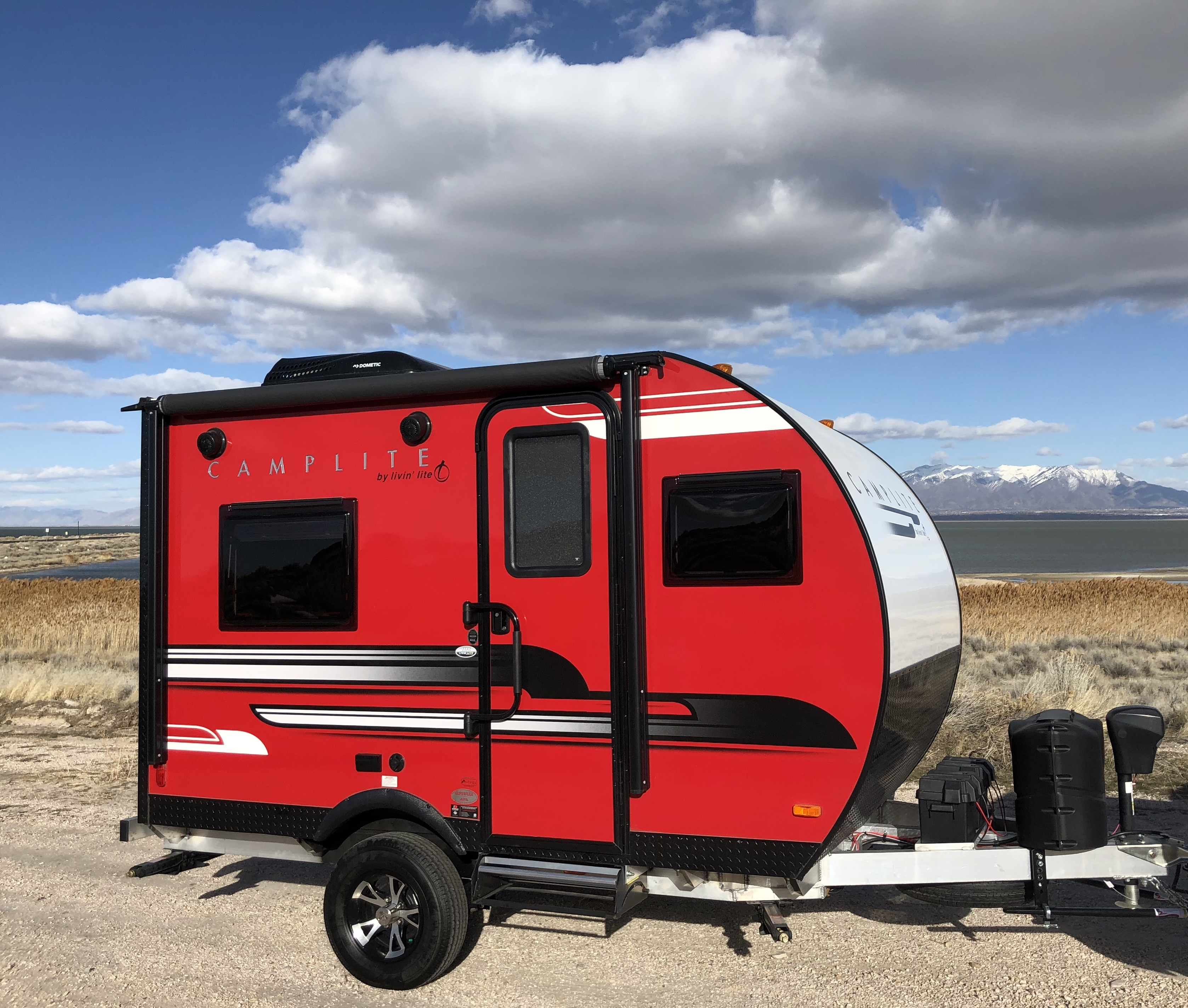 2018 CampLite travel trailer photographed on Antelope Island in the Great Salt Lake, Utah.